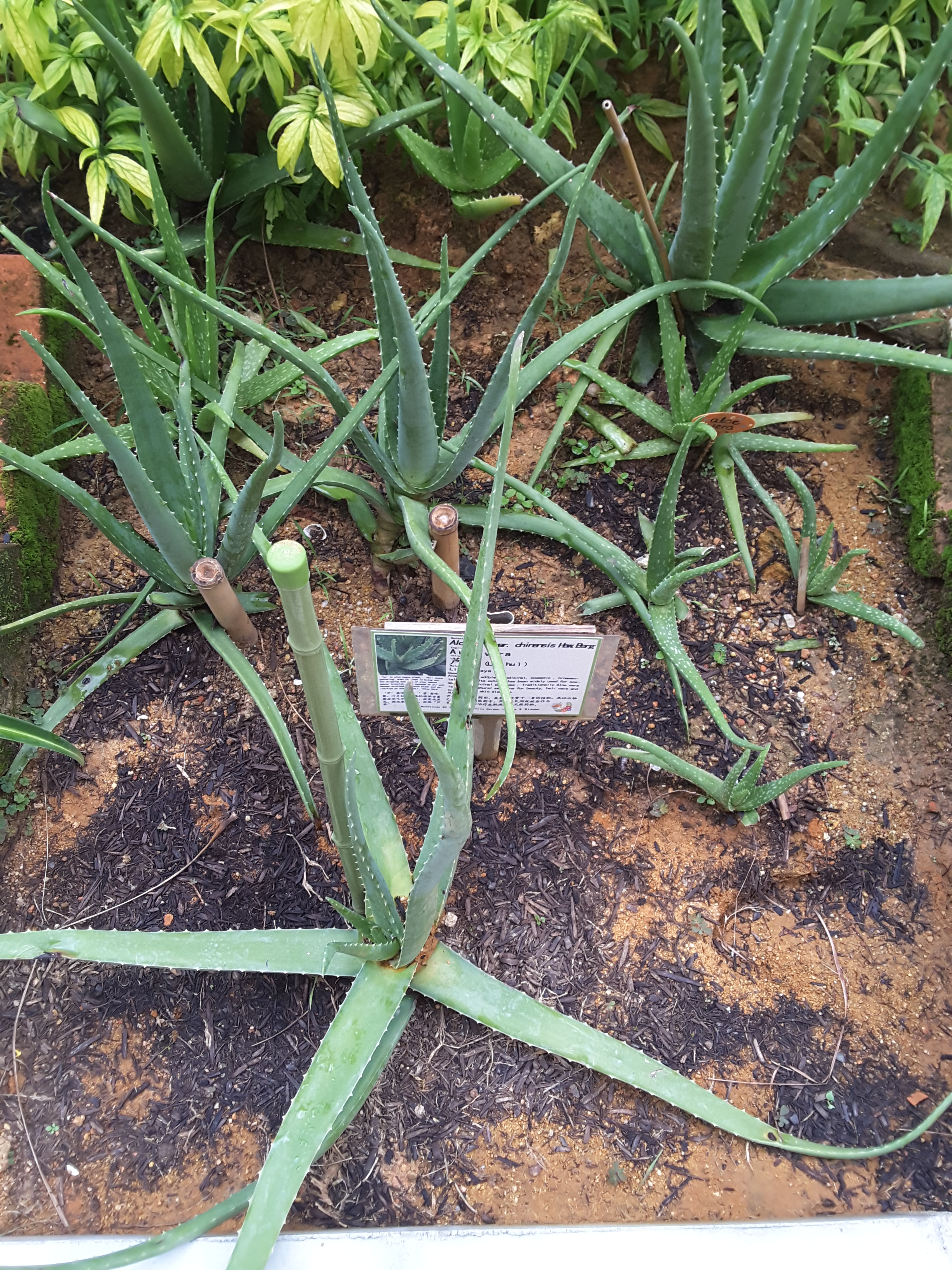 Aloe Vera in Woodlands, Singapore